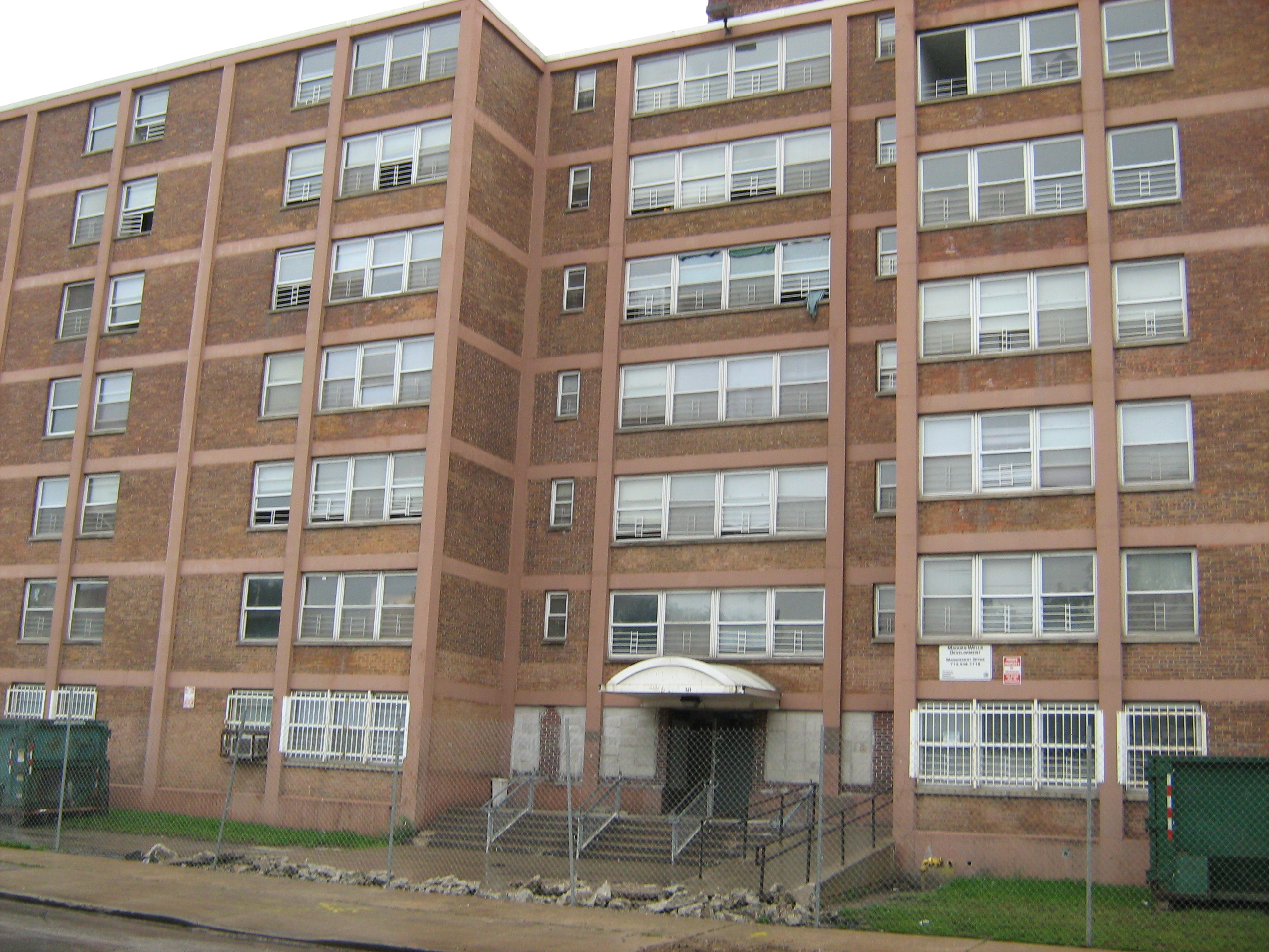 511 E Browning Ave, Chicago, IL 60653